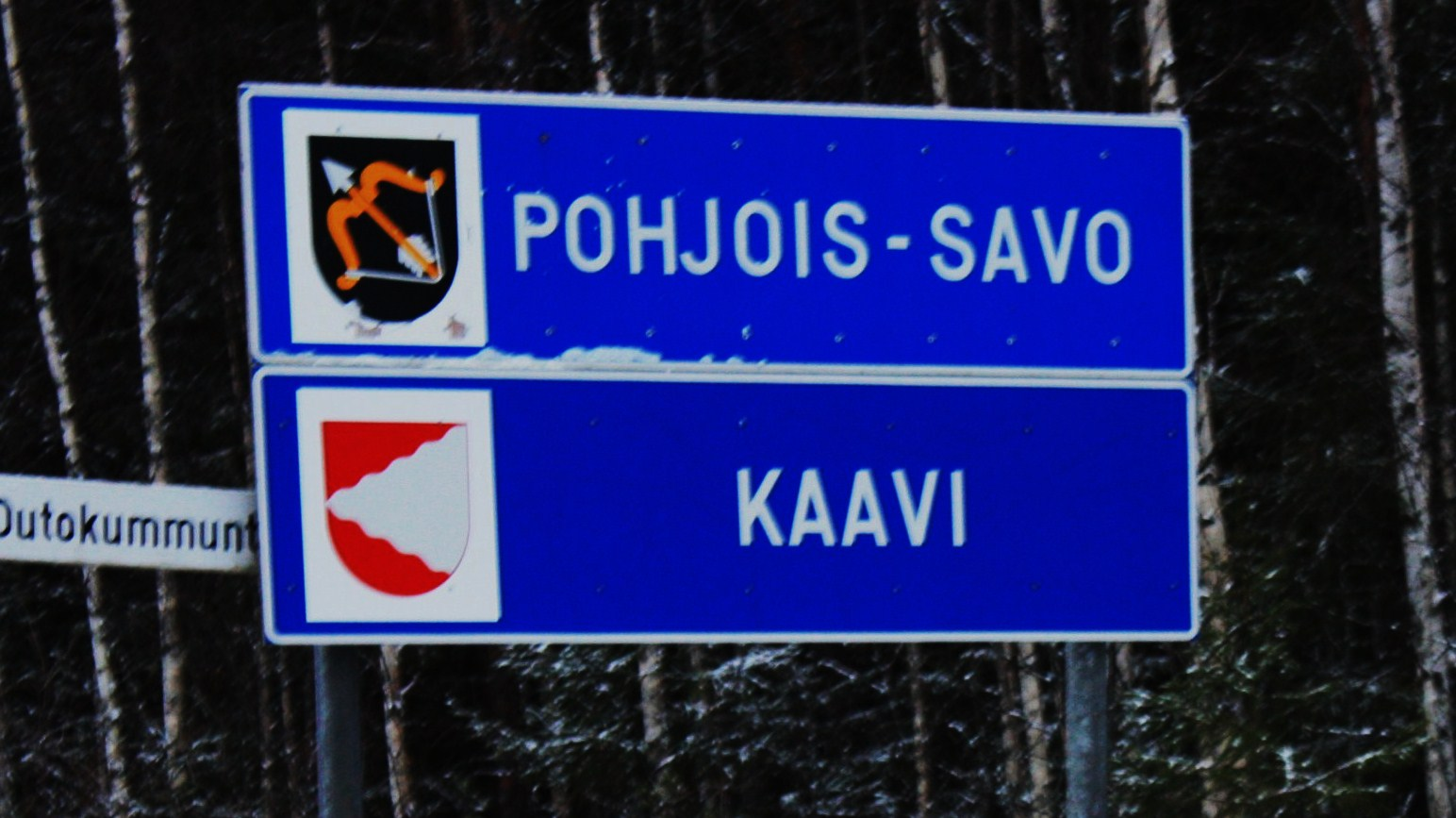 Regional border sign of Northern Savonia and municipal border sign of Kaavi on the Regional road 573 (Outokumpu–Kaavi) in Finland.